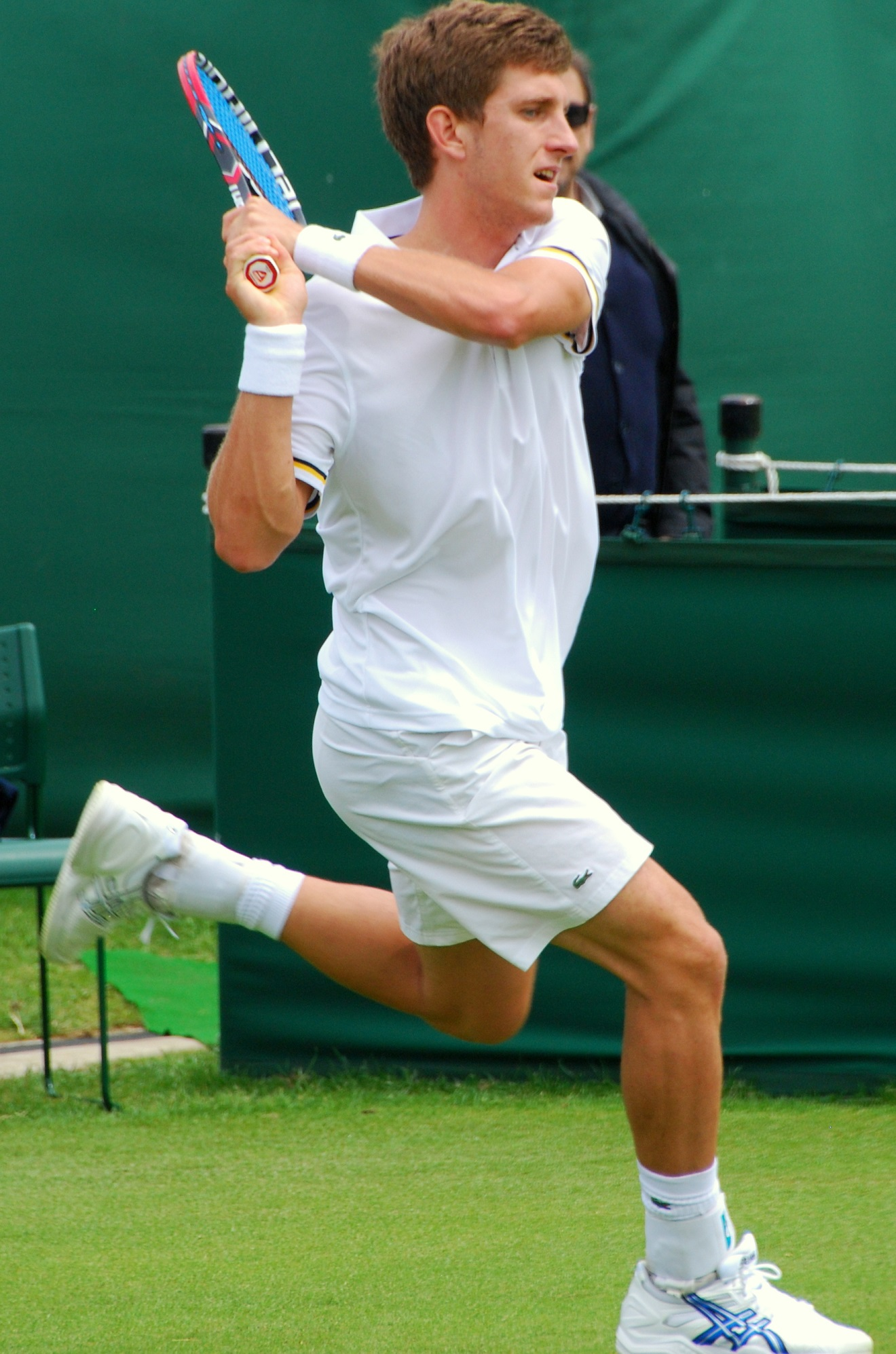 Filip Peliwo at the 2013 Wimbledon Championships